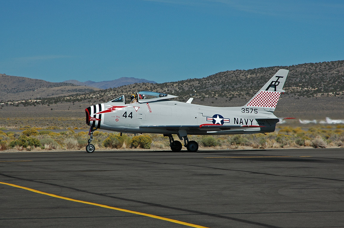 North American FJ-4B-Fury (Reno/Nevada)